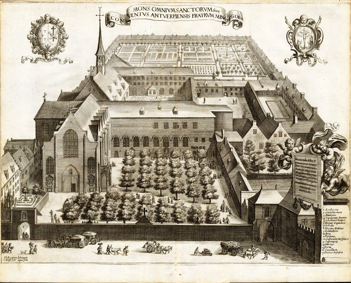 from: 'Notitia Marchionatus Sacri Romani Imperii, Hoc est Urbis et Agri Antverpiensis, Oppidorum, Dominiorum, Monasteriorum, Castellorumque sub eo. (...).' , by J. Le Roy, published by F. Lamminga, Amsterdam 1678. This is a chorographical description of the Margraviate of Antwerp, divided in 10 counties: Antwerp, Ryen, Zandhoven, Herentals, Geel, Hoogstraten, Turnhout and Breda. The plates were later used in other works by this author as well. Jacques Le Roy did extensive archival research, but he is reknown for his iconography for which he employed talented artists like Jacob Van Werden, Frans Ertinger, Wenzel Hollar, Lucas Vorsterman II and others. The engravers in this work include: Henricus Causé (1648-1699), Franz Ertinger (1640-1710), J.Harrewijn, Robert Whitehand, Bouttats, N.Stramot, G. De Bruyn. The imagery is highly reliable. His works were translated in several languages.